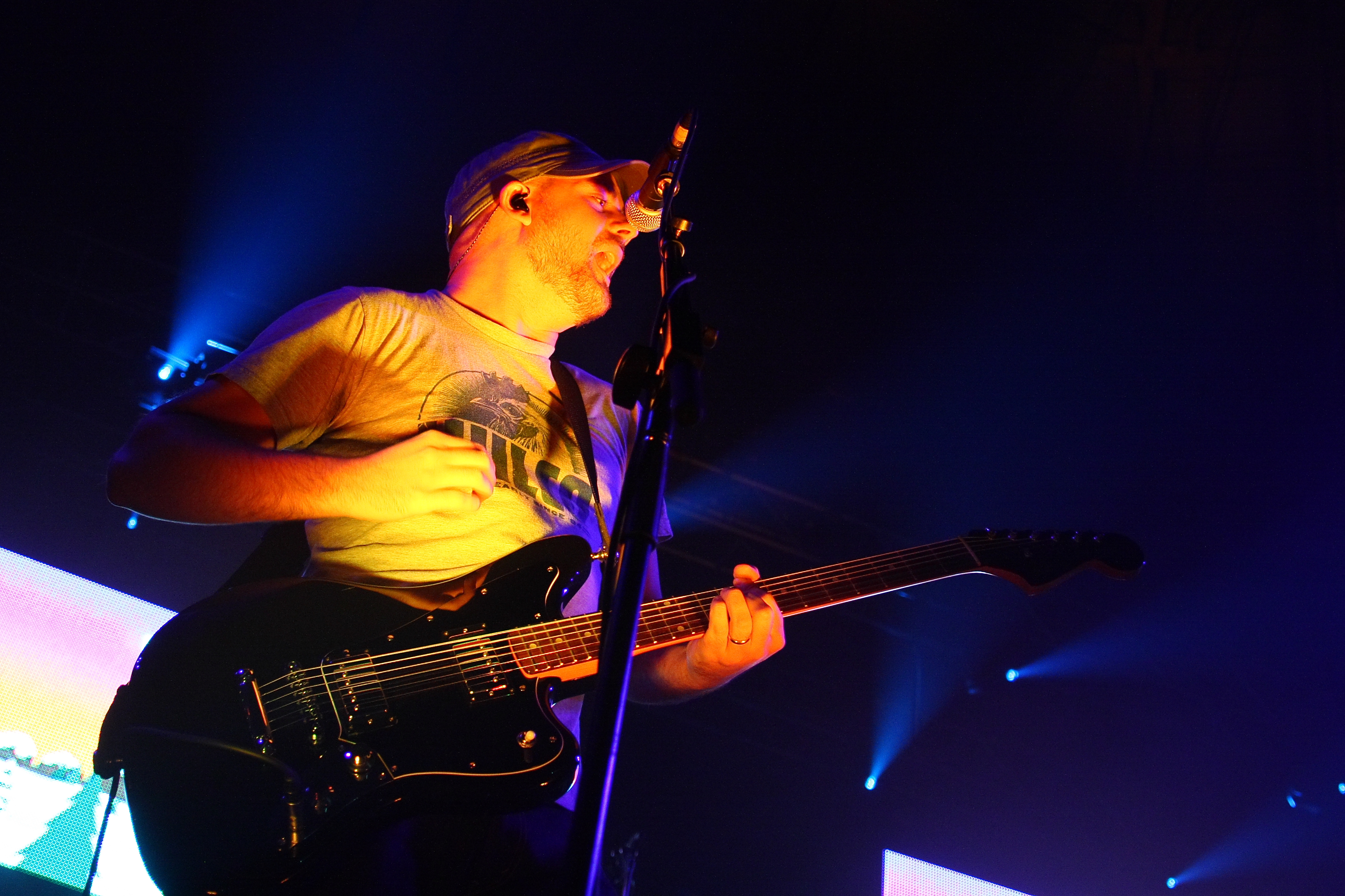 Matthew Hoopes performing with Relient K in 2008.